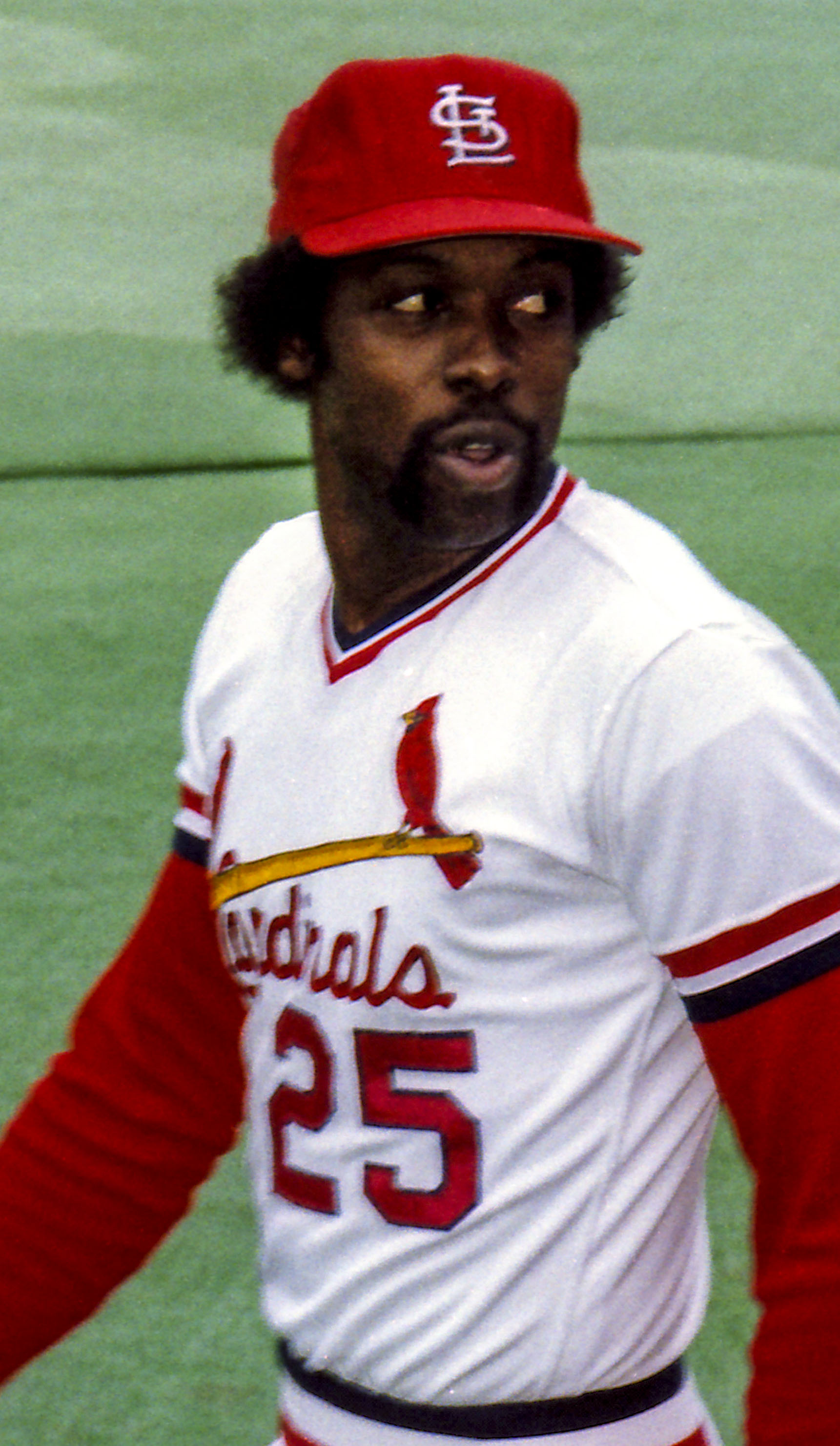 George Hendrick of the Cardinals 1983.